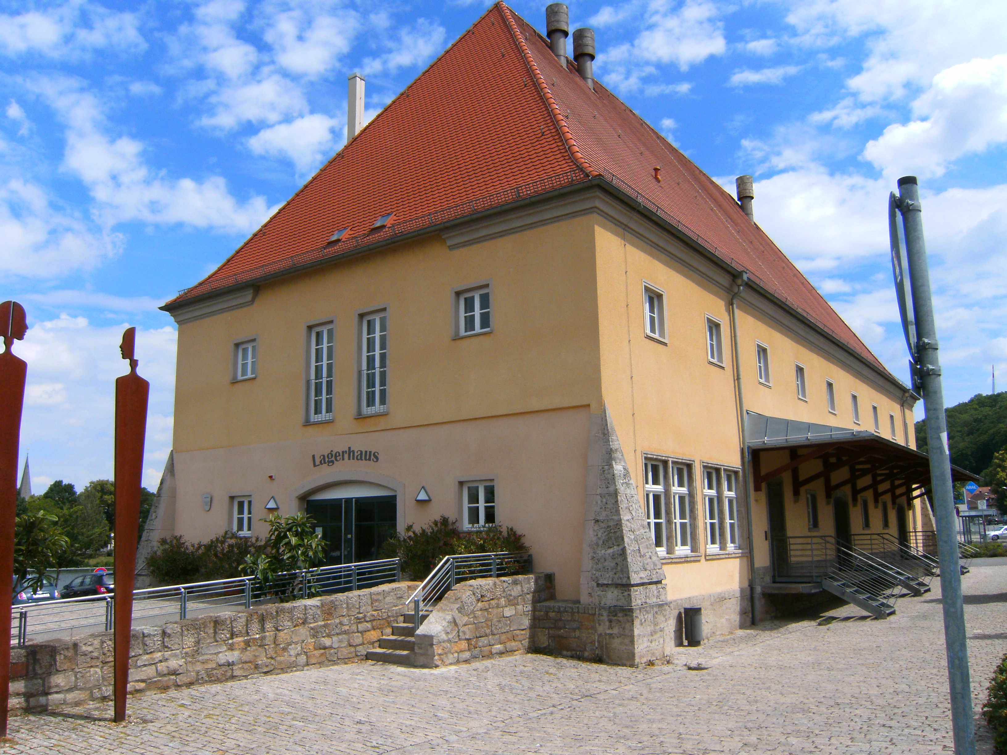 Marktbreit, Germany, Lagerhaus am Main: Adam-Fuchs-Straße 2. Storehouse at the shore of river Main.